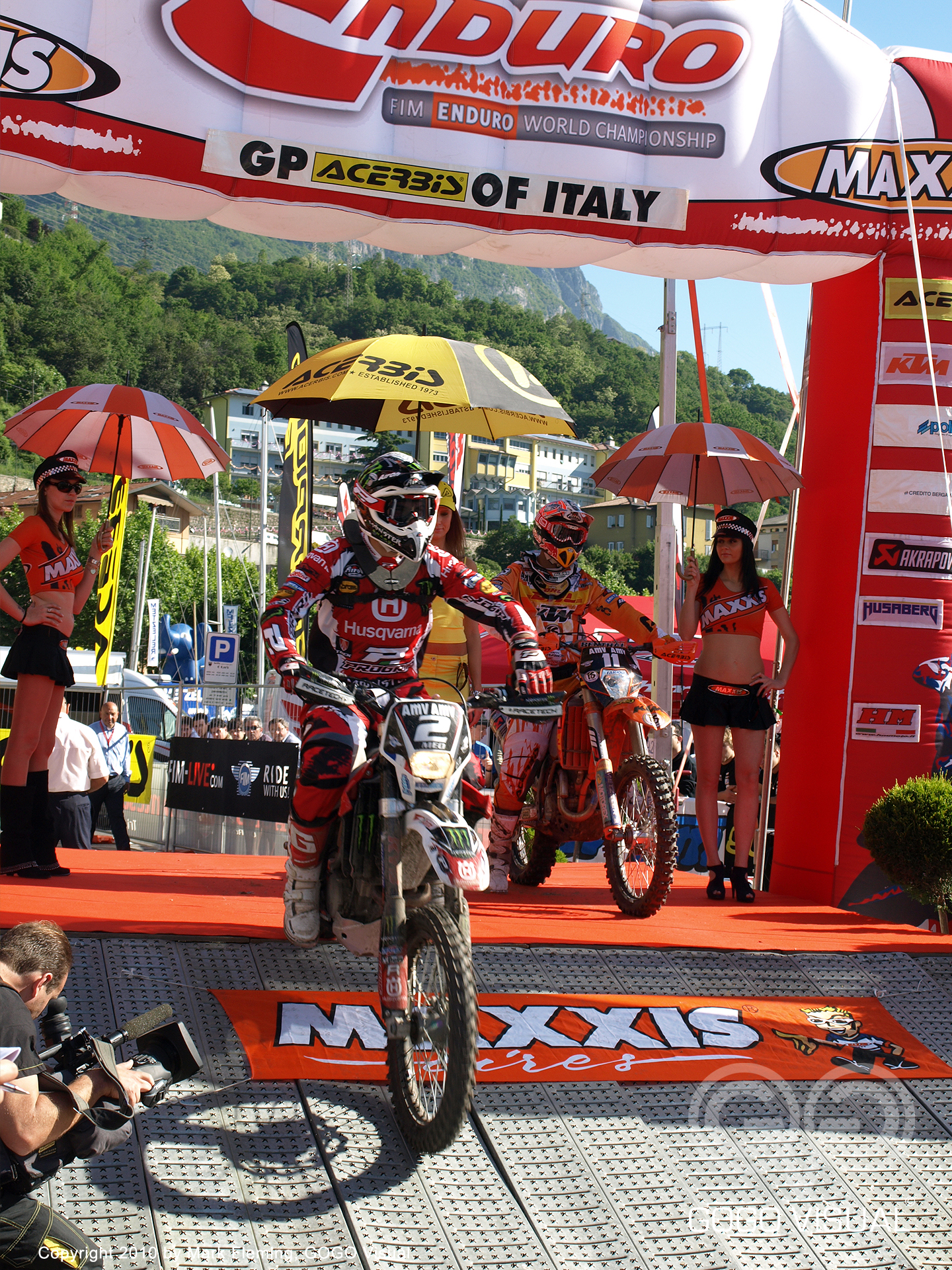 E1 - Antoine Meo (France, Husqvarna) and Johnny Aubert (France, KTM) on the Start line at the 2010 MAXXIS FIM Enduro World Championship GP of Italy, in Lovere (41st Valli Bergamasche)